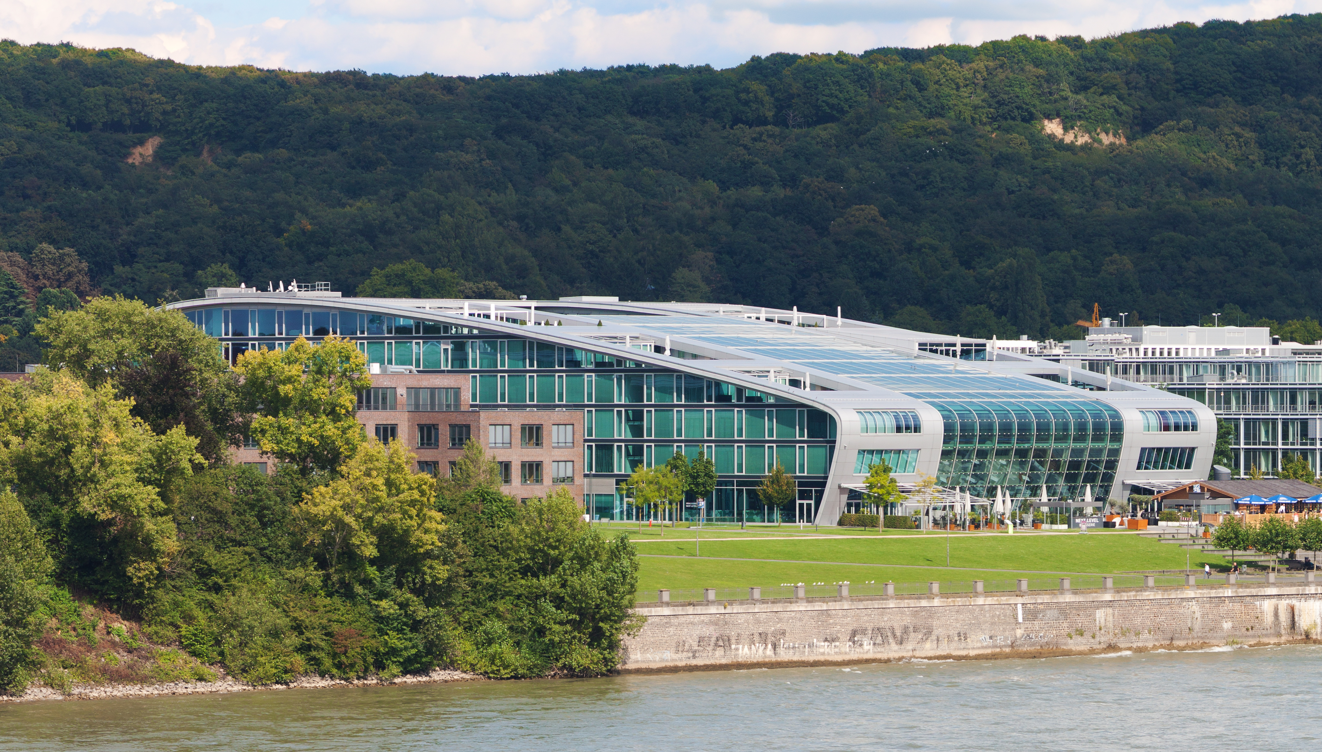 Kameha Grand in Bonn, view from Konrad-Adenauer-Brücke (Südbrücke).